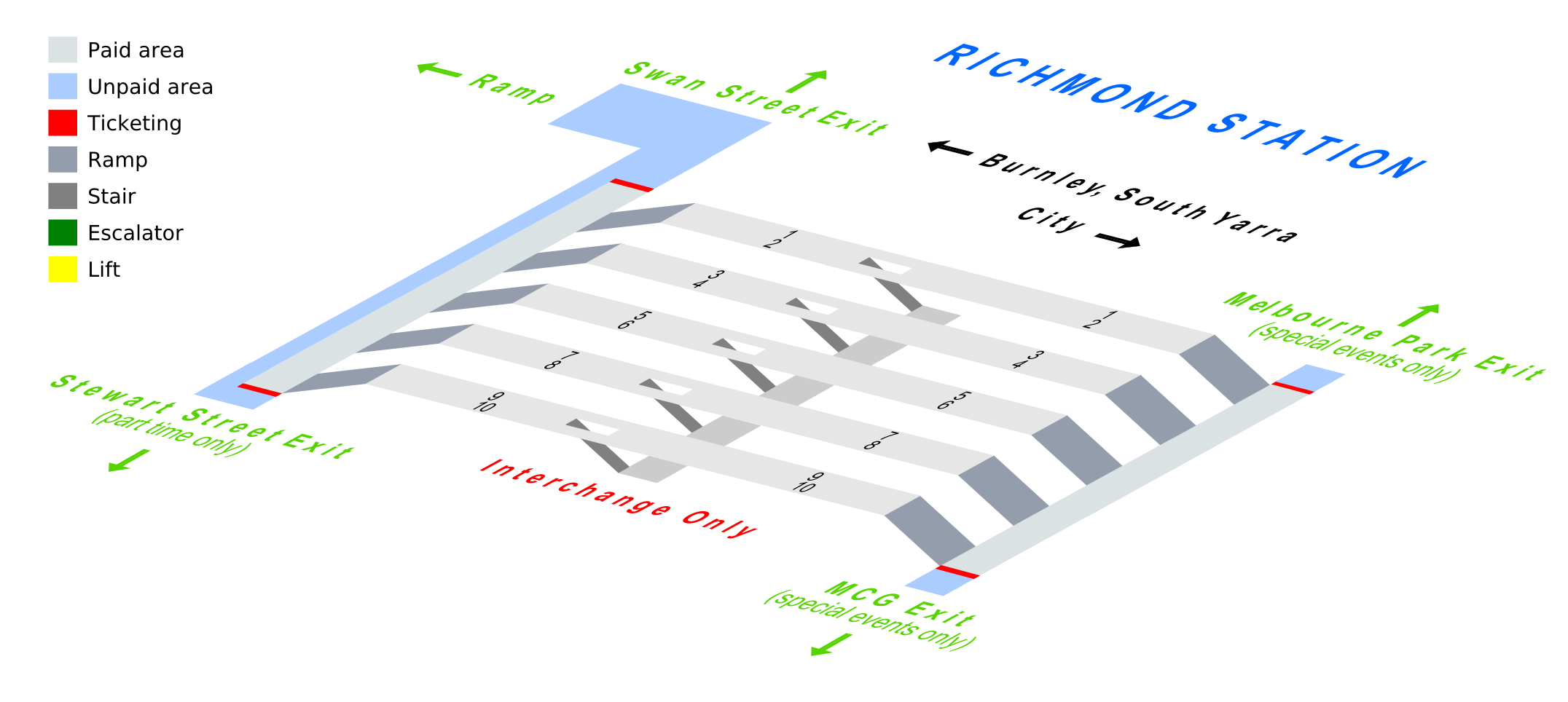 Schematic diagram of Richmond railway station